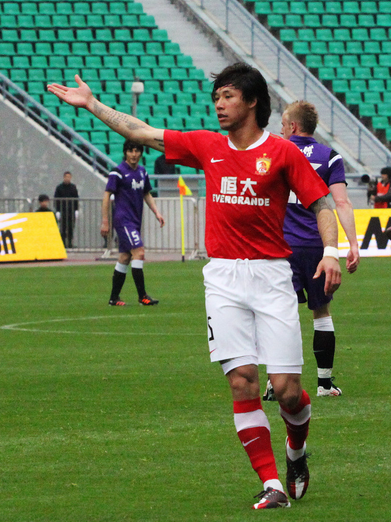 Chinese footballer Zhang Linpeng plays for Guangzhou Evergrande against Tianjin Teda in the 2012 Chinese FA Super Cup.